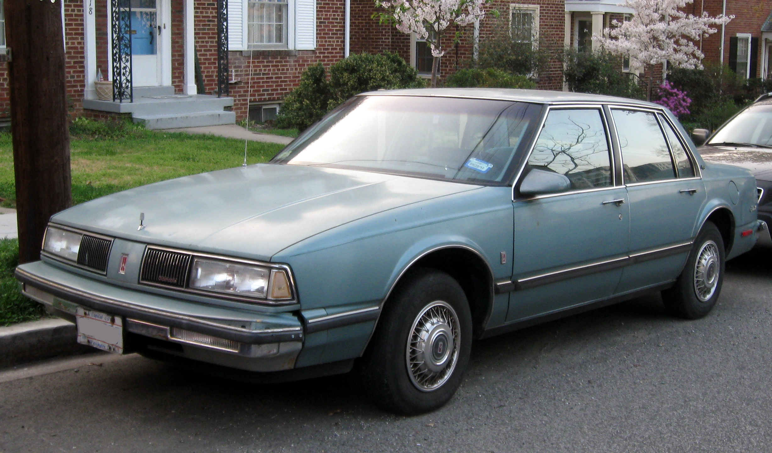 Oldsmobile Delta 88 photographed in Washington, D.C., USA.